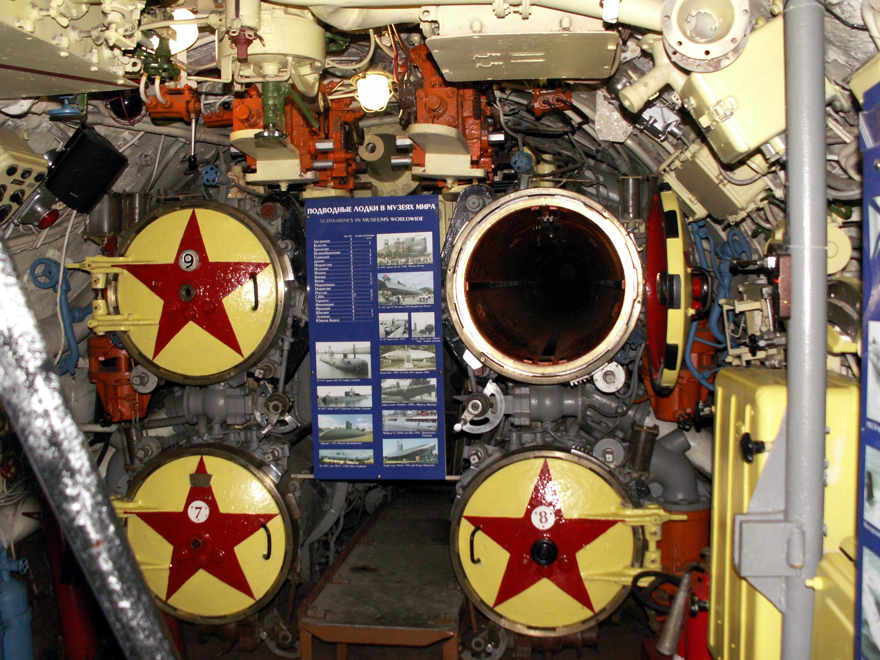 Musem of the World Ocean in Kaliningrad